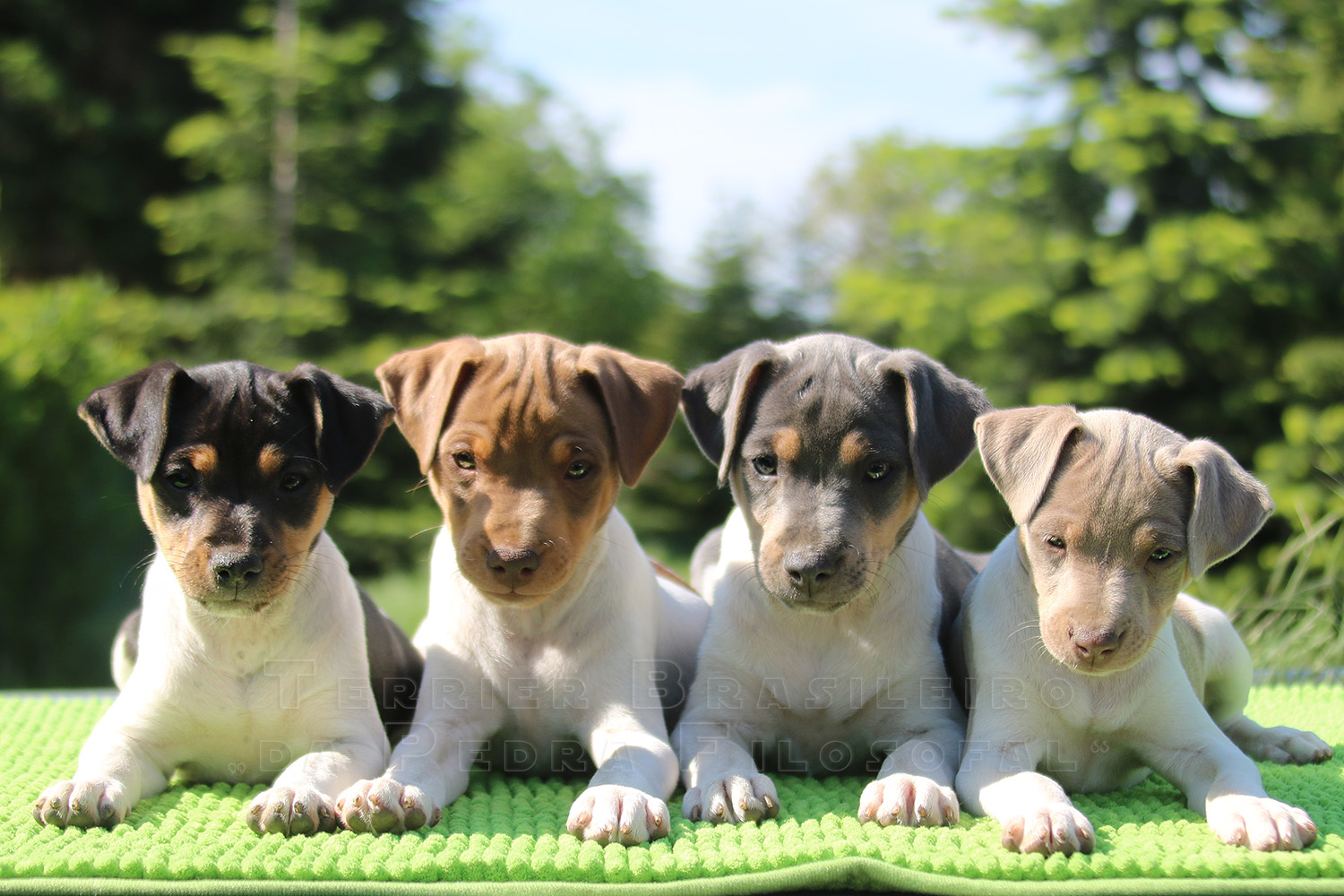 The 4 genetically possible colours of Terrier Brasileiro. From left to right: Tricolor black, tricolor brown, tricolor blue, tricolor isabela.